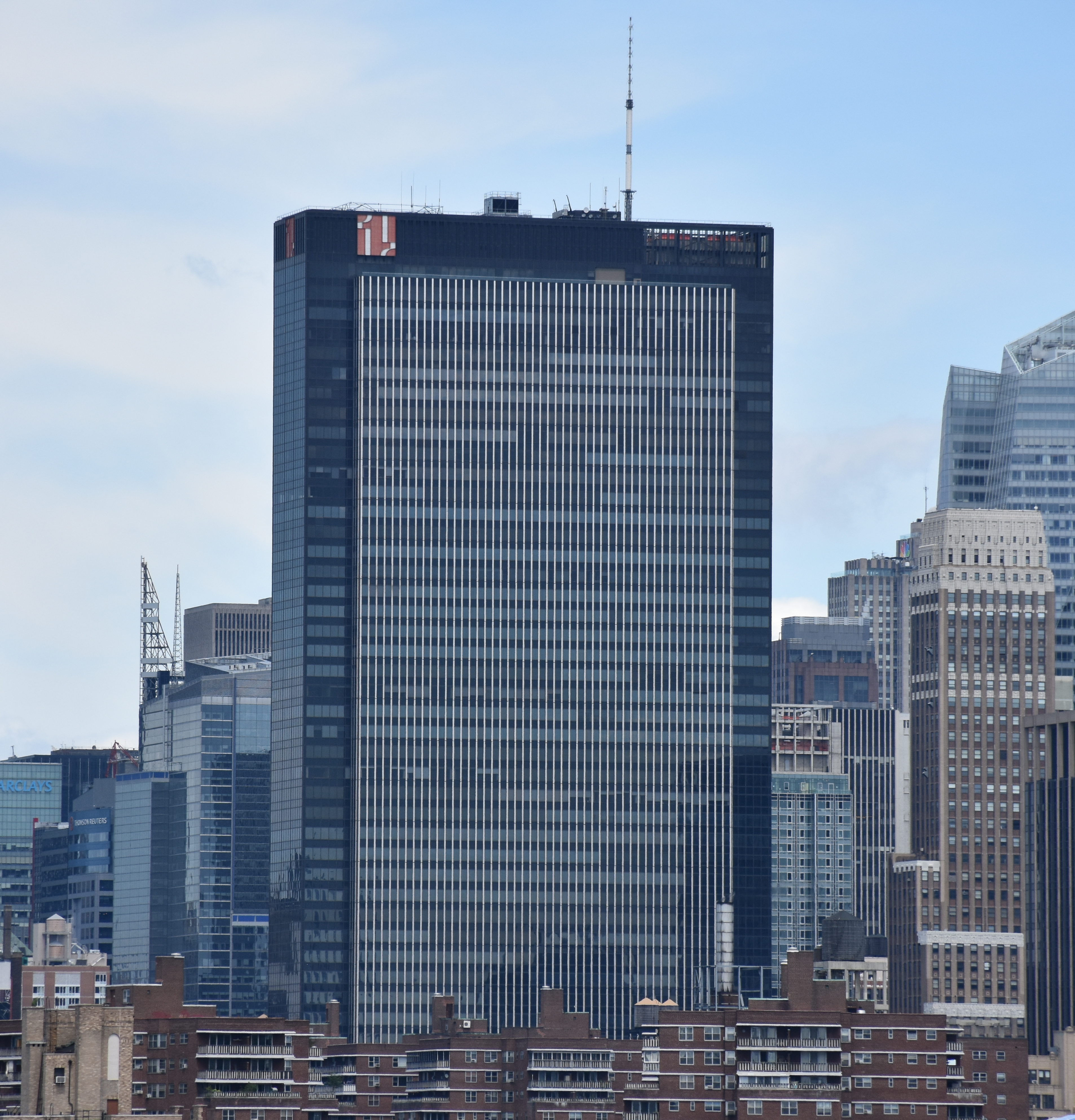 The One Penn Plaza building in New York City in June 2015